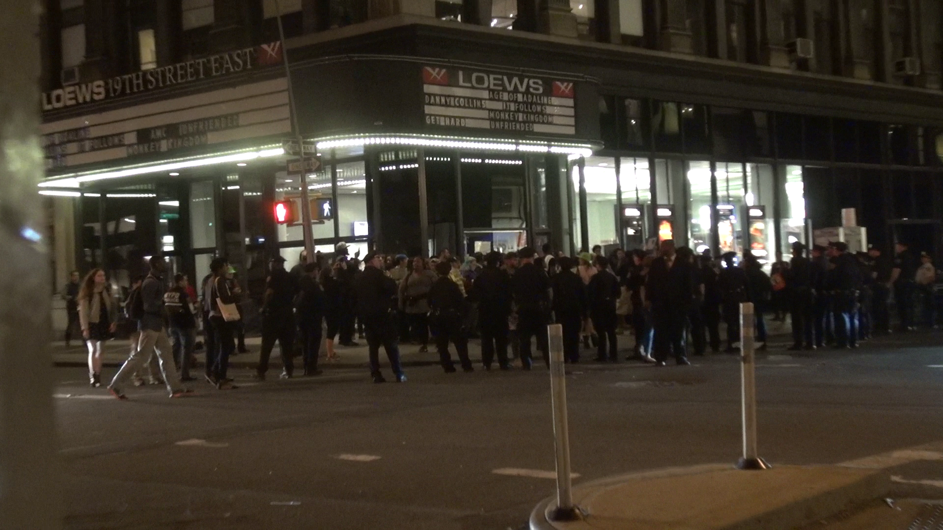 police surrounding protestors at East 19th street in NYC #blacklivesmatter